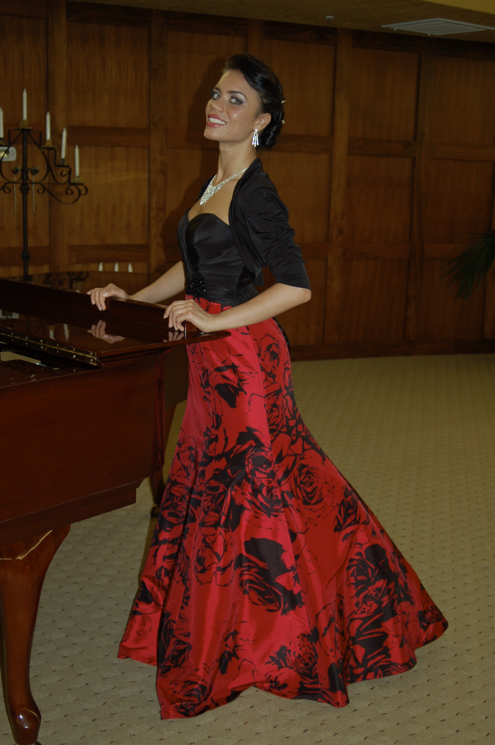 Photo of Ginger Costa-Jackson at Green Valley Spa, St. George Utah on the occasion of a benefit concert the Costa-Jackson Sisters gave there.